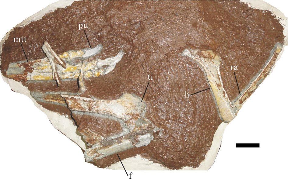 Abbreviations: f., femur; h., humerus; mtt., metatarsals; pu., pedal ungual; ra., radius; ti., tibia. Scale bar = 5 cm.